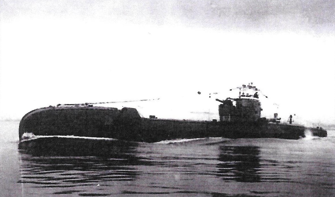 British T class submarine HMSM TOTEM underway in Plymouth Sound.